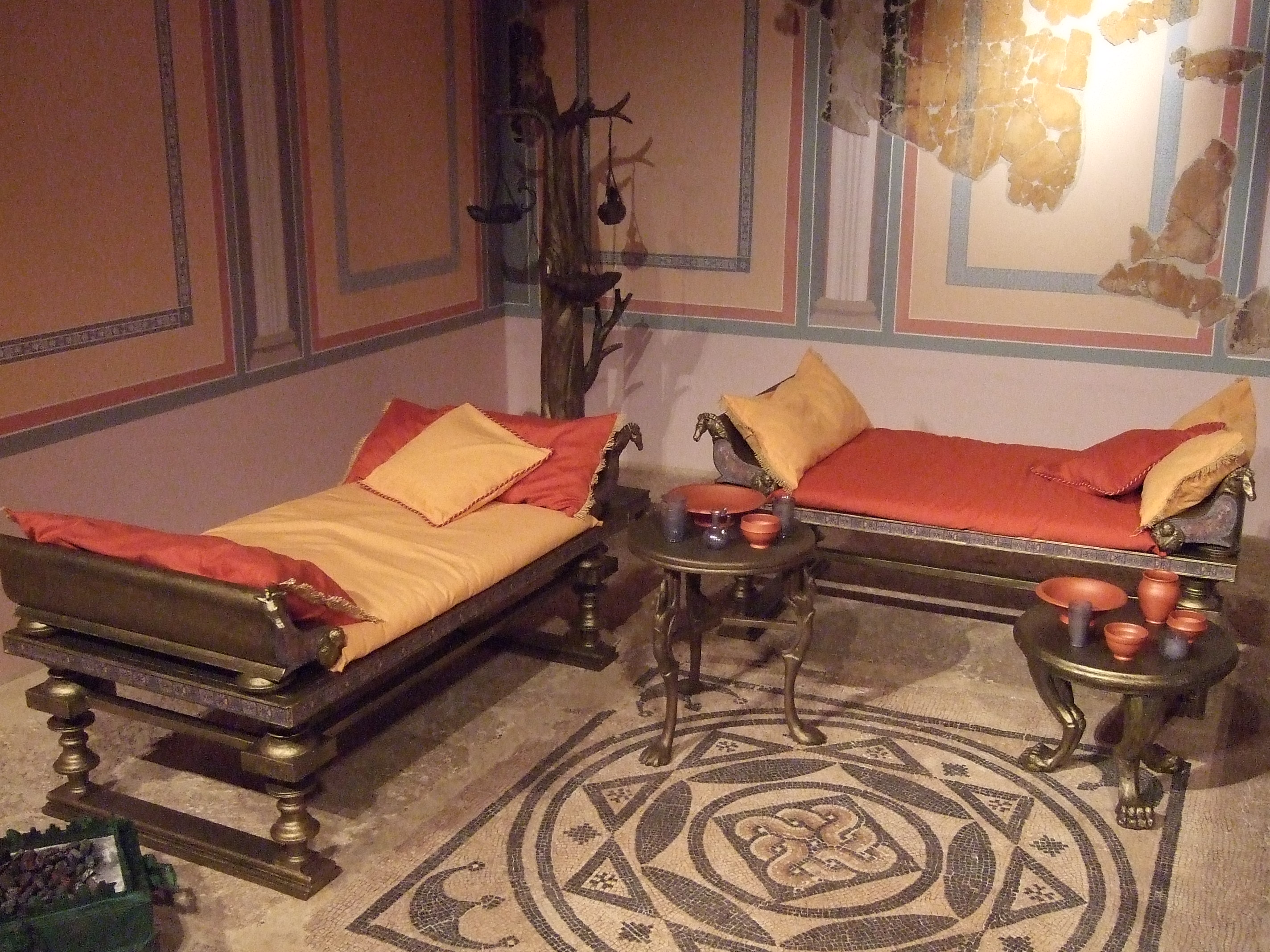 Triclinium of the Añón street (1st c. AC). Caesaraugusta